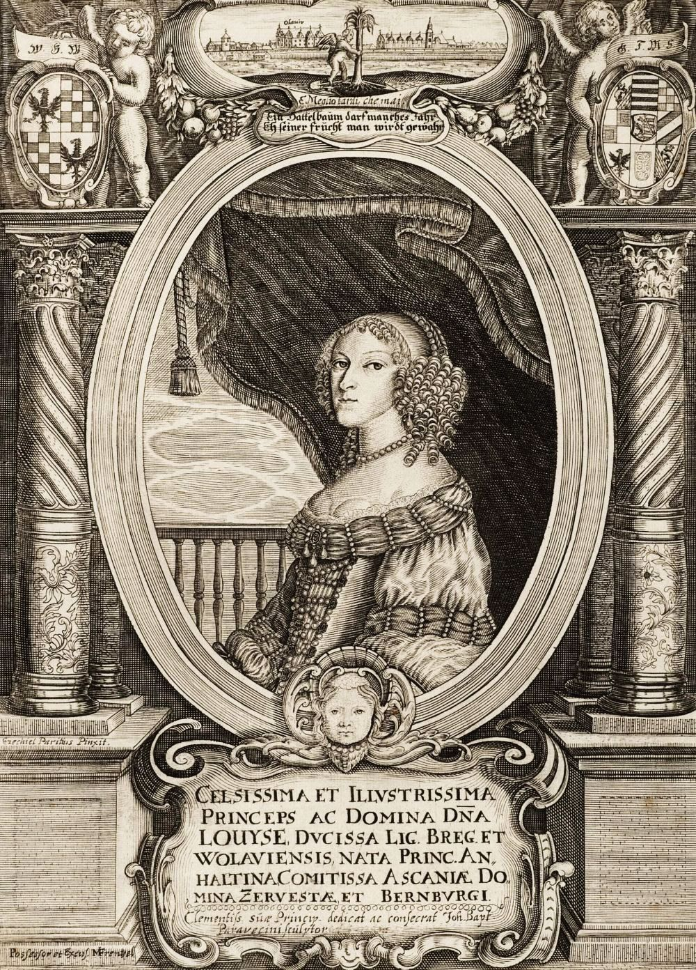 Louise of Anhalt-Dessau (1631–1680), Duchess of Legnica-Brzeg-Wołów-Oława